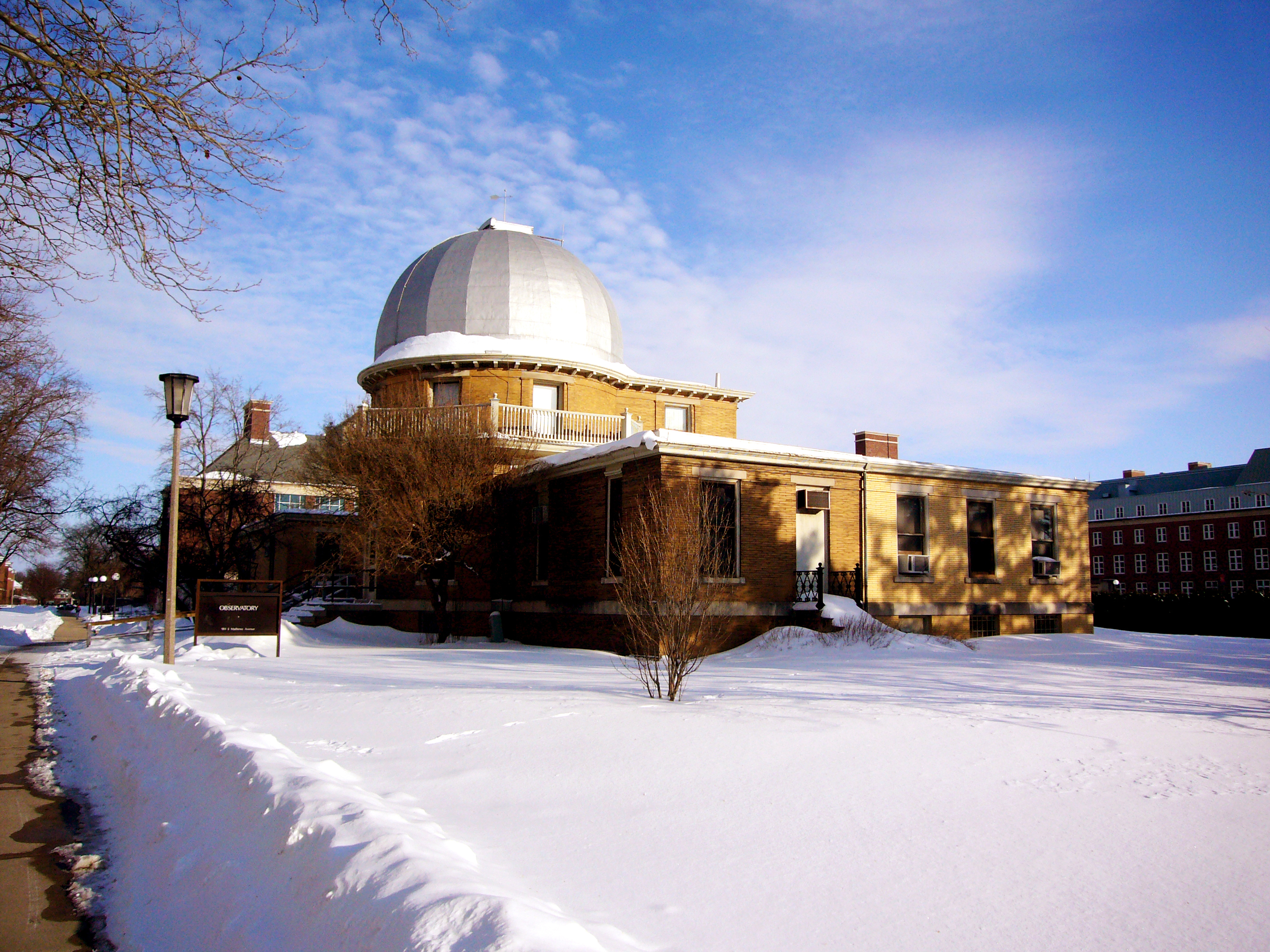 University of Illinois at Urbana–Champaign Observatory